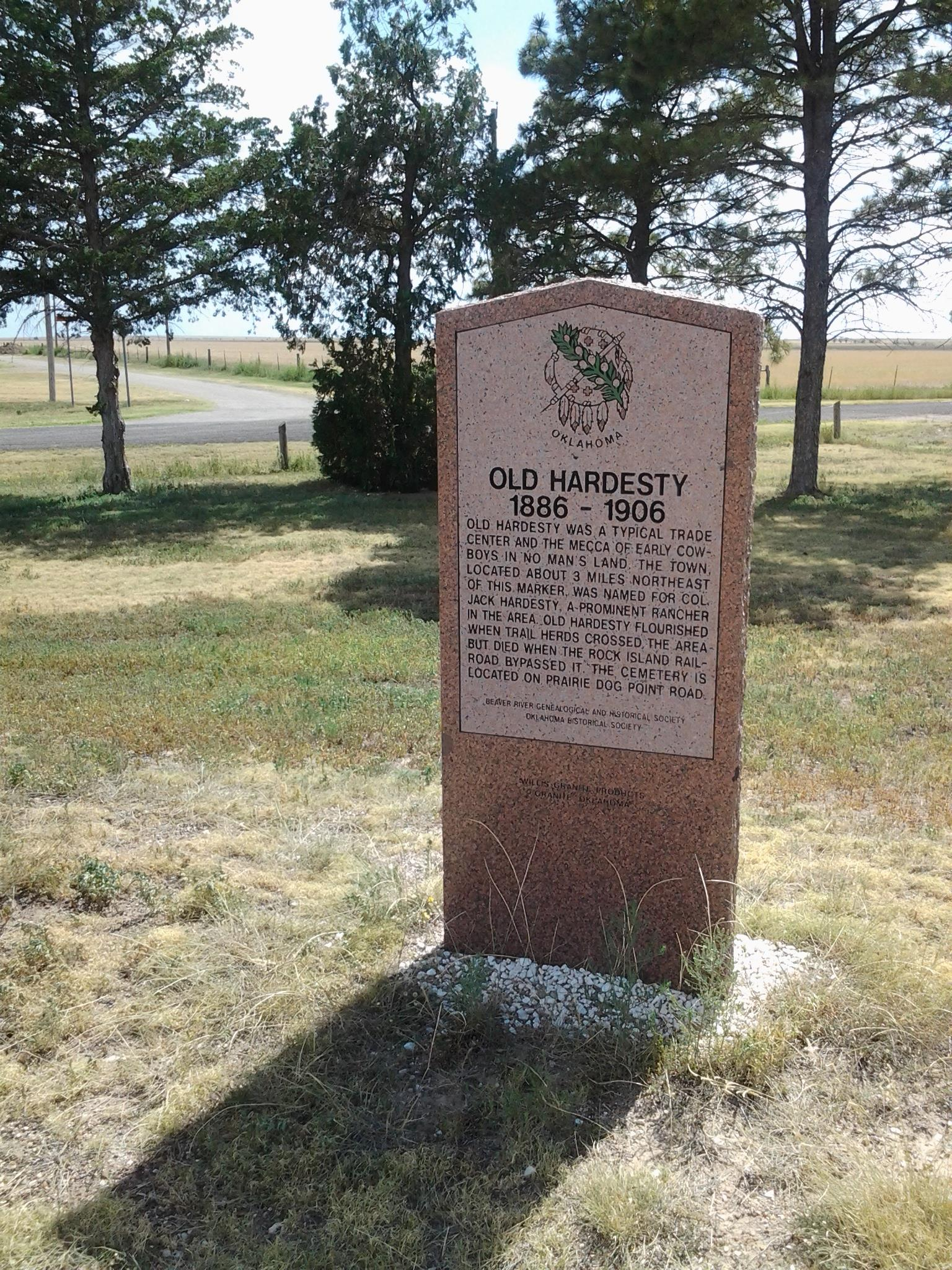 Historic marker in Hardesty, in the Oklahoma Panhandle. This stone is located on US 412 on the western edge of modern Hardesty and commemorates old Hardesty (1886-1906) which was located 3 miles to the northeast.